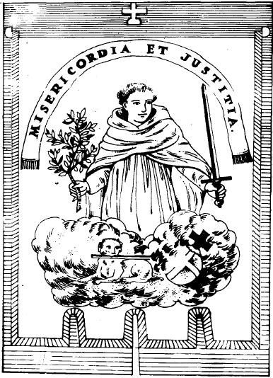 Inquisition-Konkani Vishwakosh